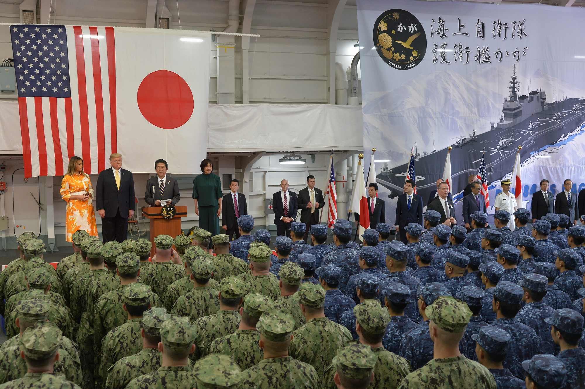 Japanese Prime Minister Shinzō Abe speaks in the hangar of JS Kaga in Yokosuka, 28 May 2019